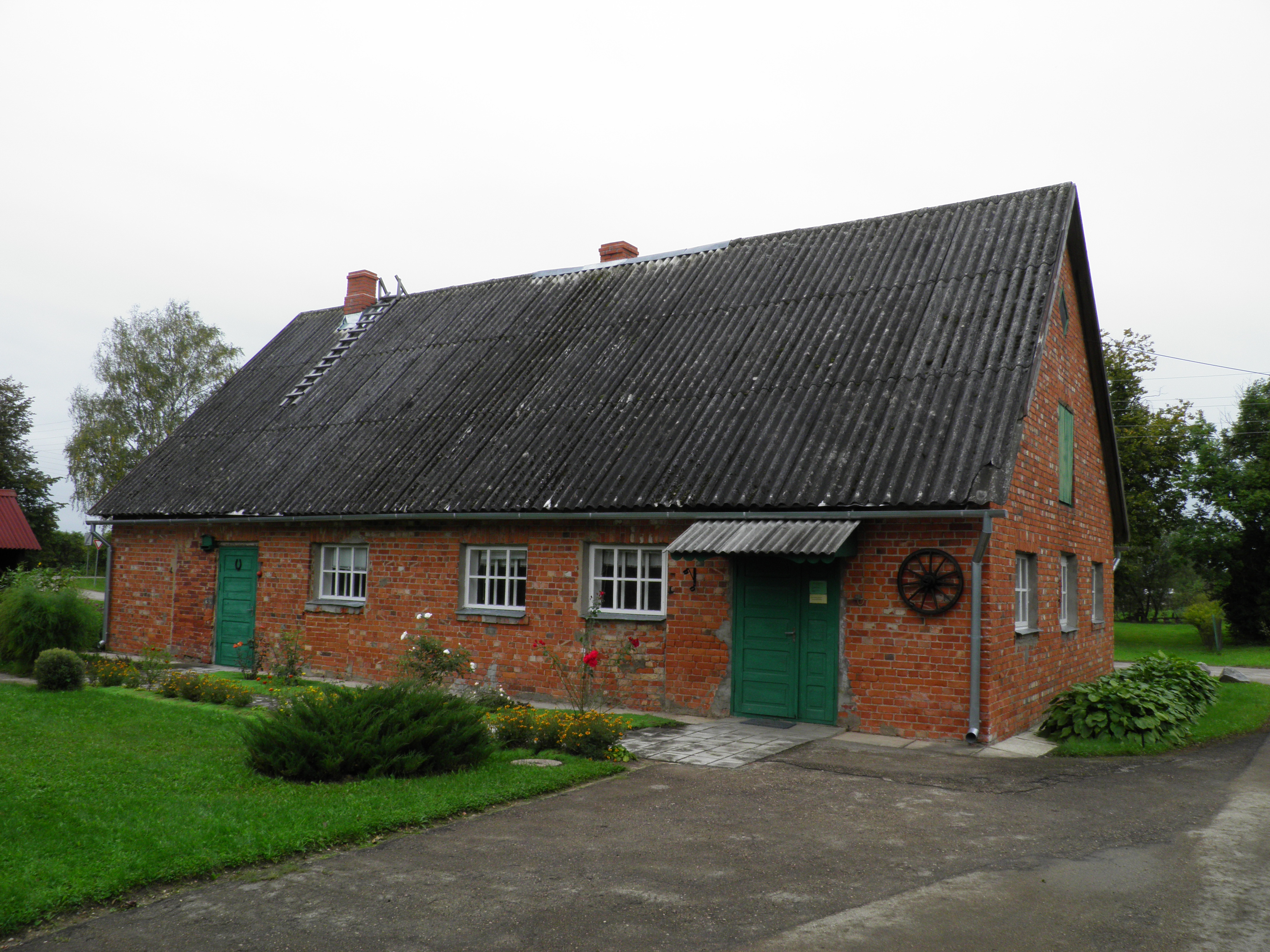 Akniste Local History Museum